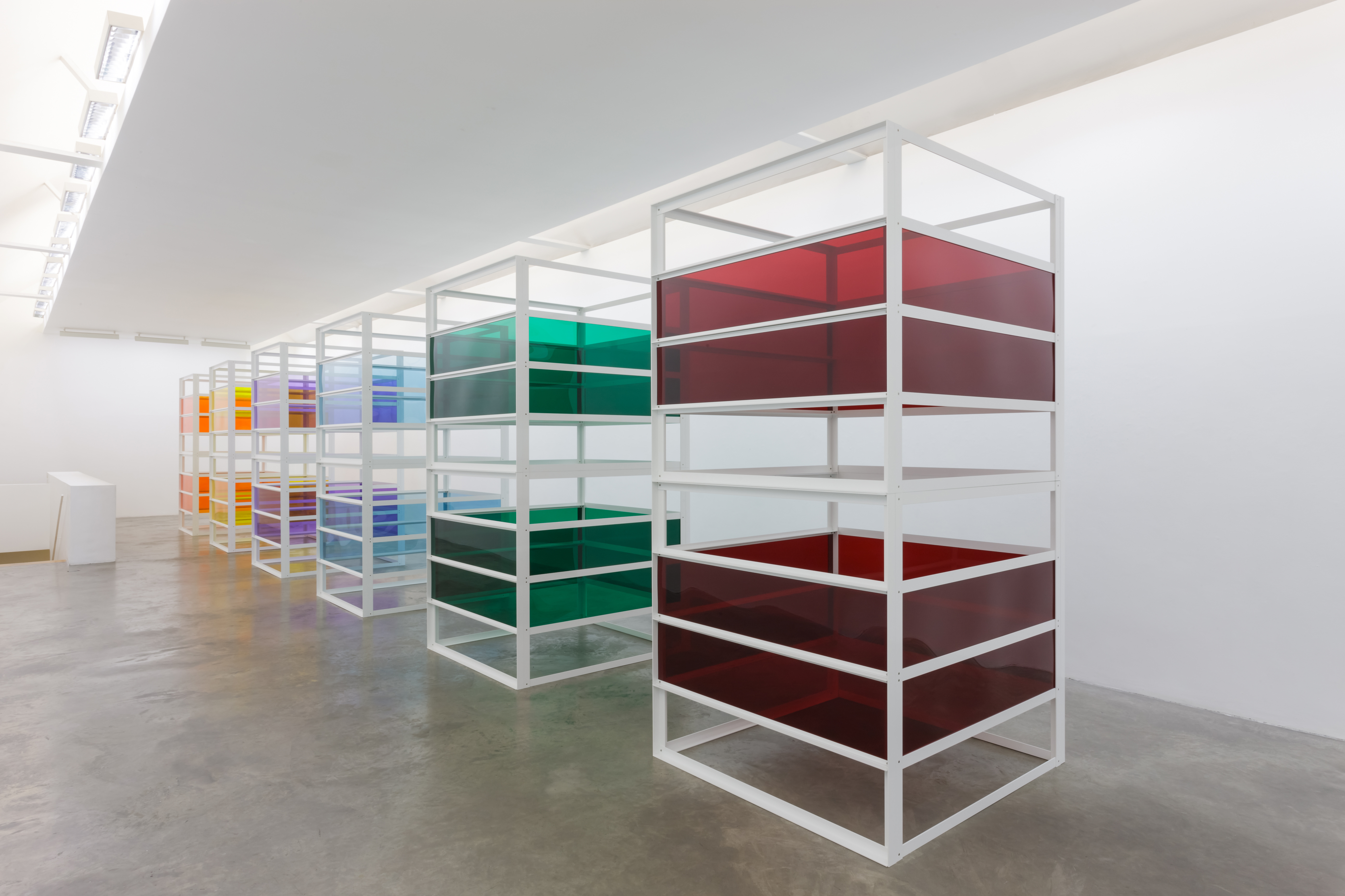 Kerlin Gallery, Liam Gillick, Complete Bin Development 2013, powder coated aluminium, Plexiglas, 6 elements each element 300 x 150 x 160 cm each element 118.1 x 59.1 x 63